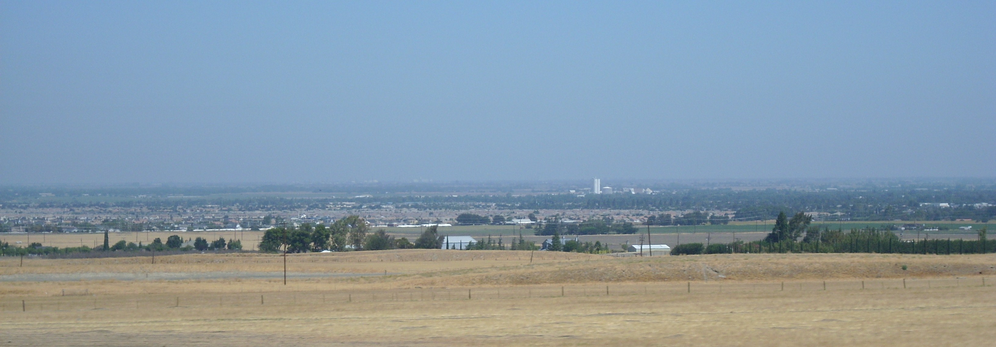 The San Joaquin Valley of California in August — near Westley, in Stanislaus County, California.